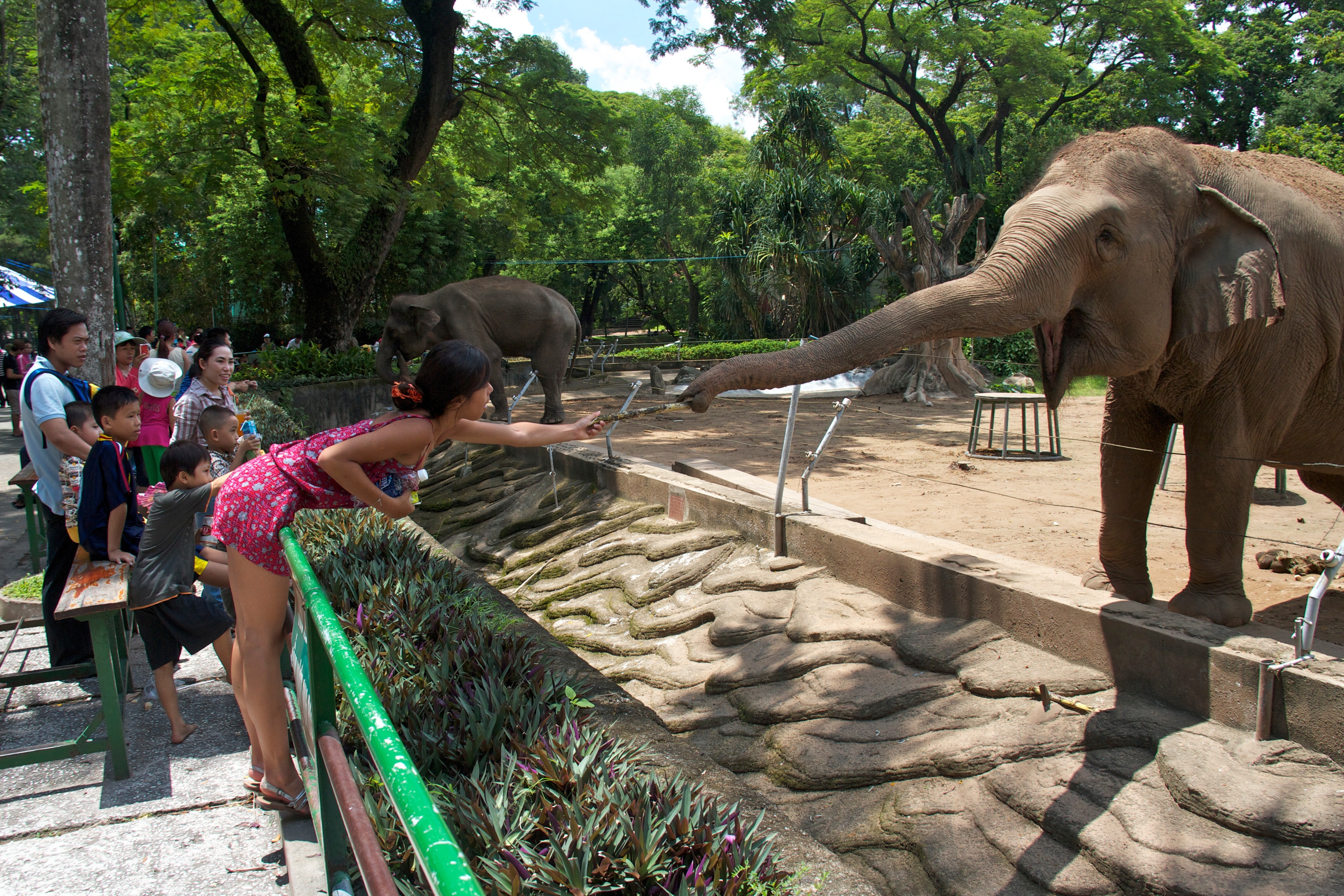 Saigon Zoo and Botanical Gardens